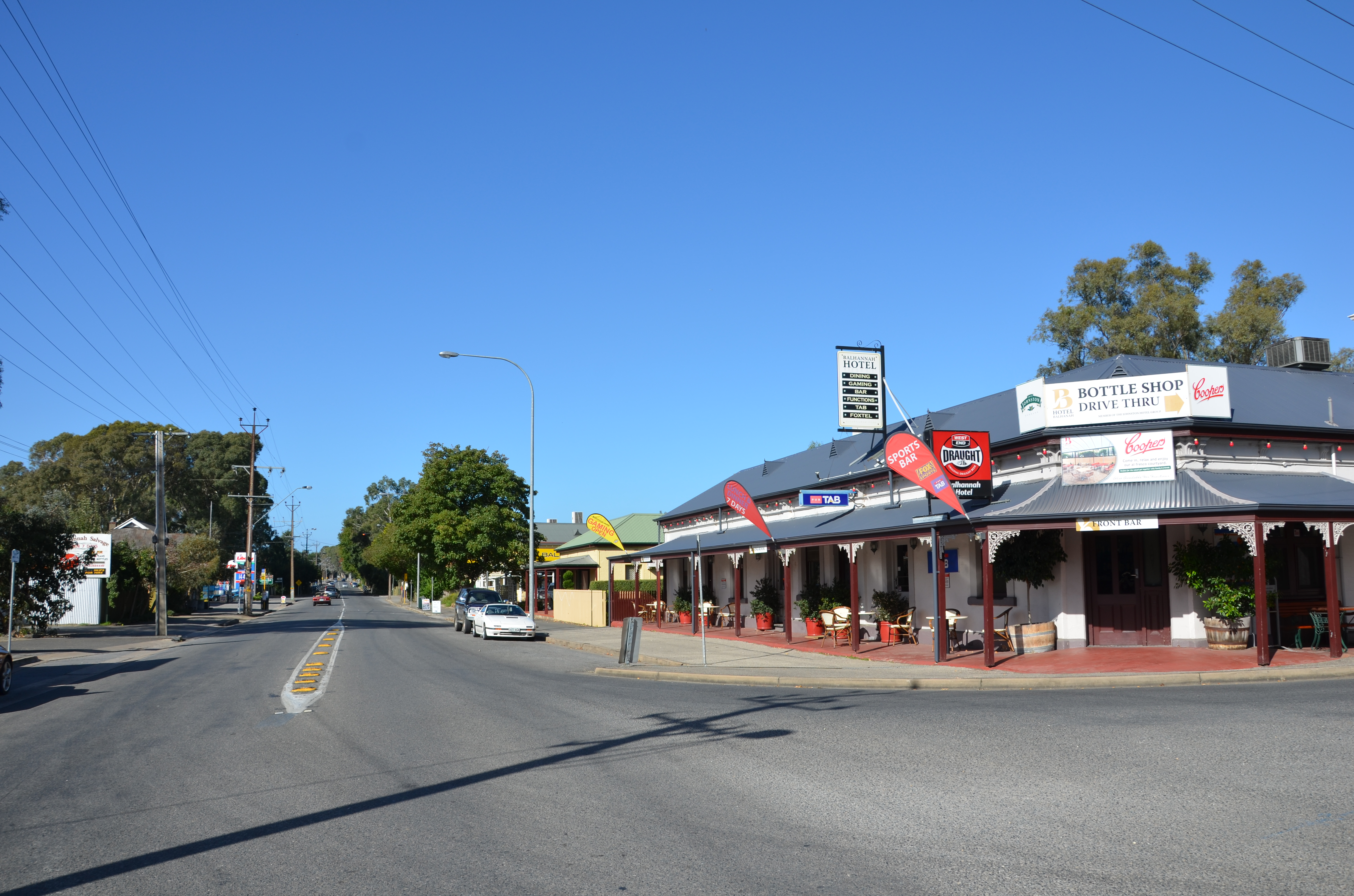 Onkaparinga Valley Road at Balhannah, South Australia. The Balhannah Hotel is at right of frame.